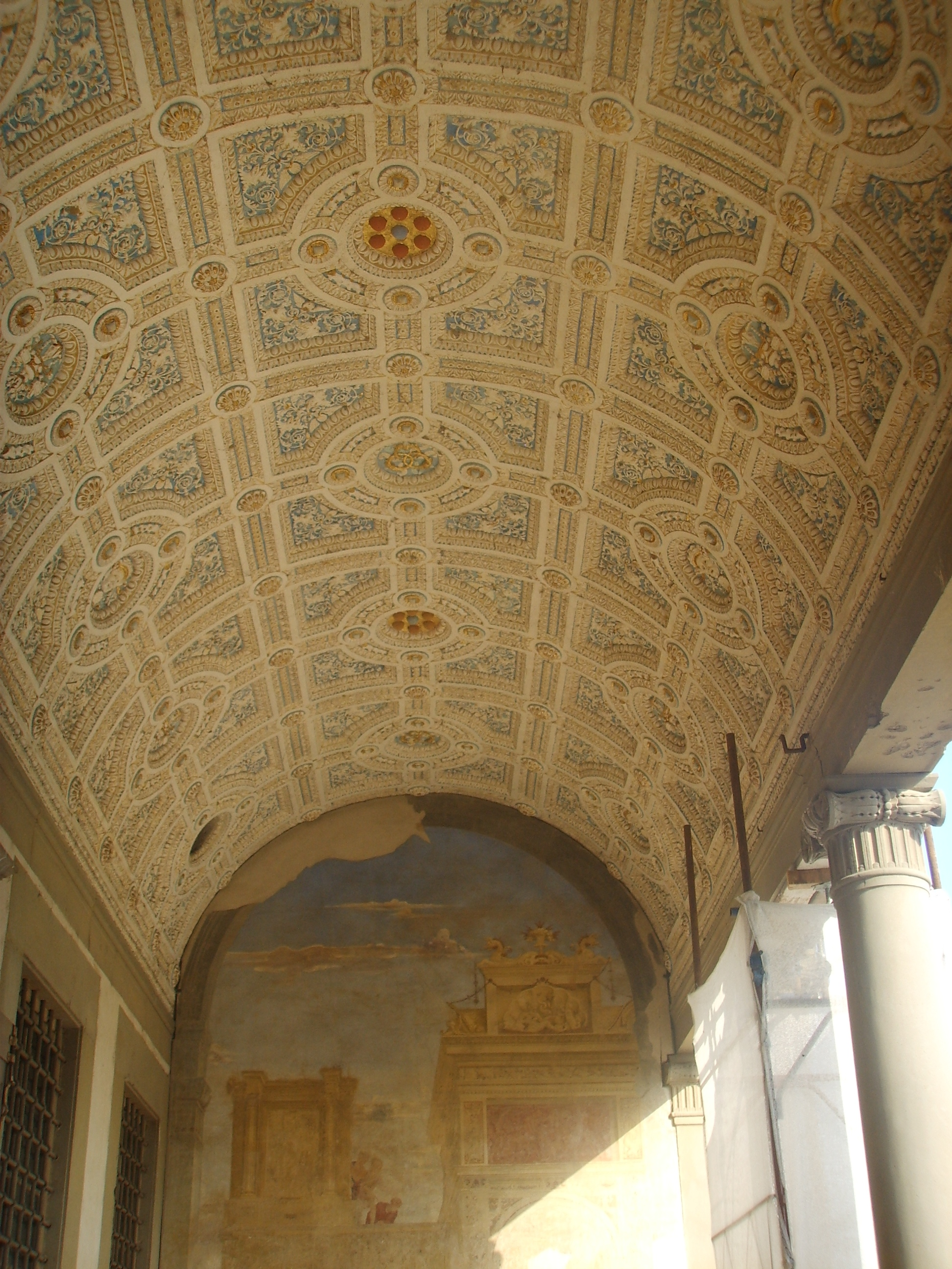 Upper loggia ceiling and Laocoonte fresco by Filippino Lippi at Villa Medicea in Poggio a Caiano, Italy.